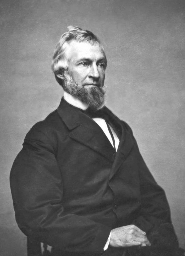 James A. McDougall